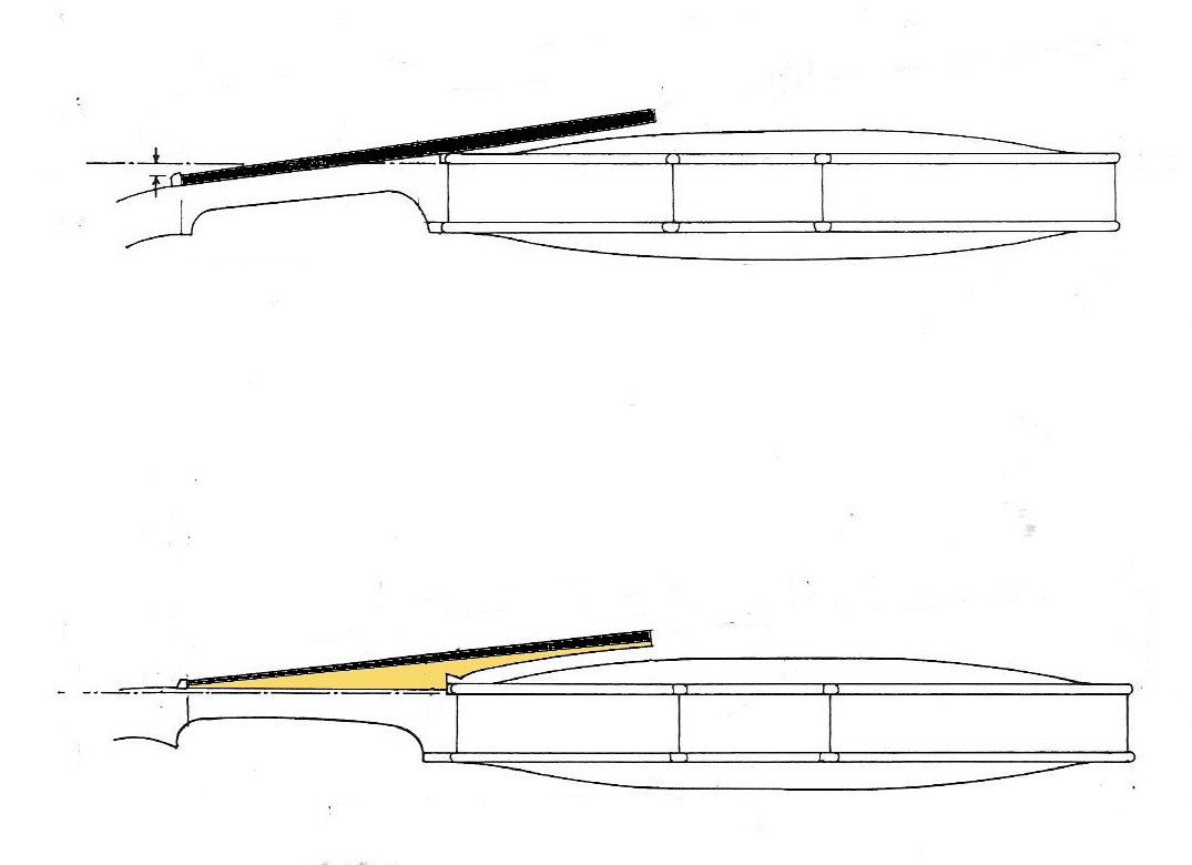 Comparison of neck and fingerboard between modern (upper) and baroque violin